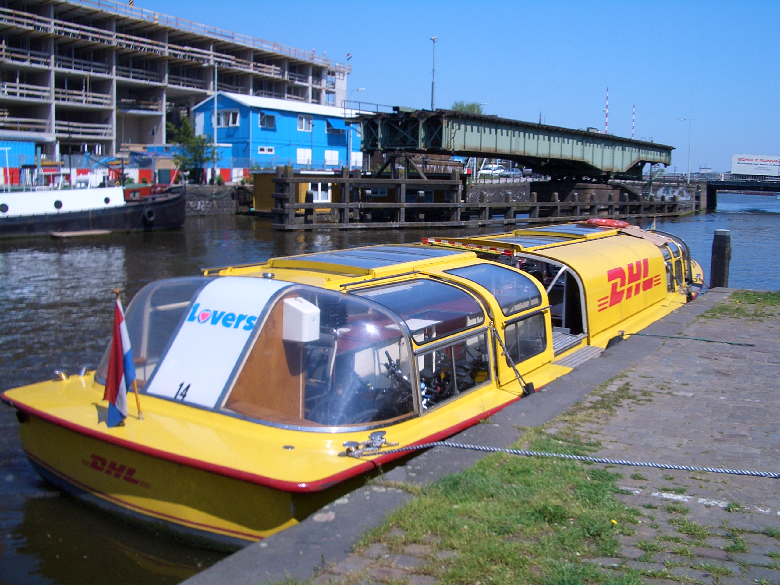 The world's first ever floating express distribution center in Amsterdam does the work of five DHL vans and saves over 3,000 liters of fuel a year.